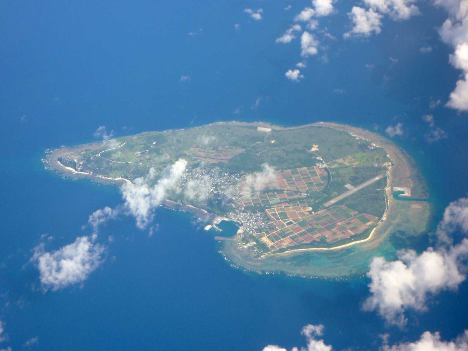 Aguni Island (Aguni-jima) in Okinawa Prefecture, Japan